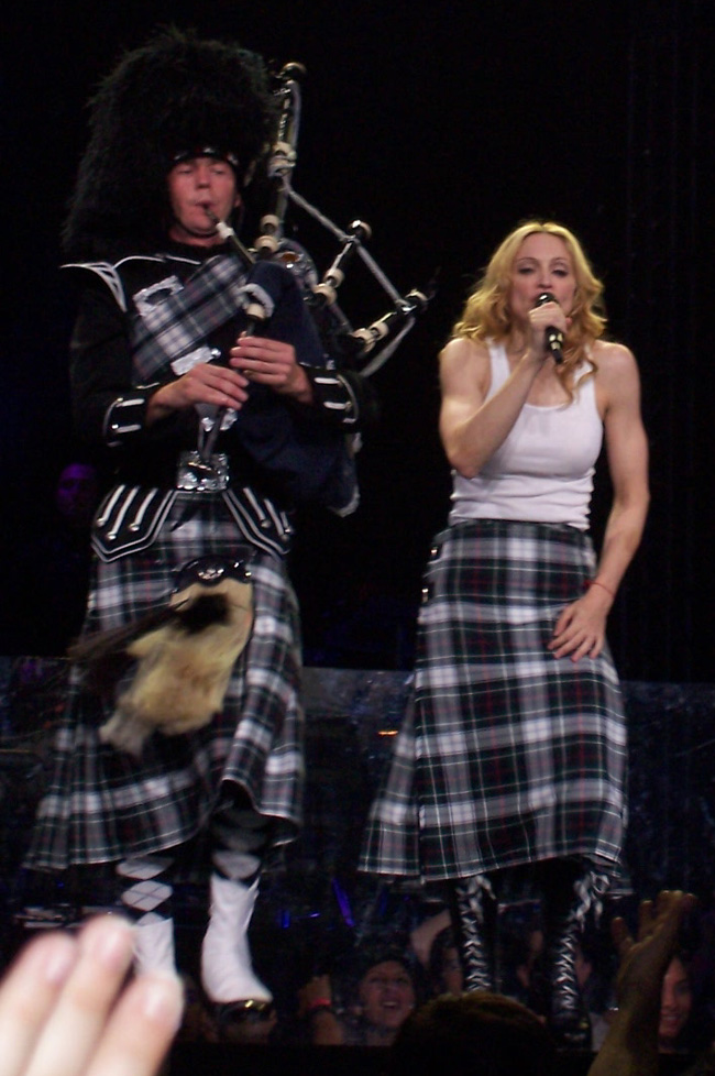 Concert